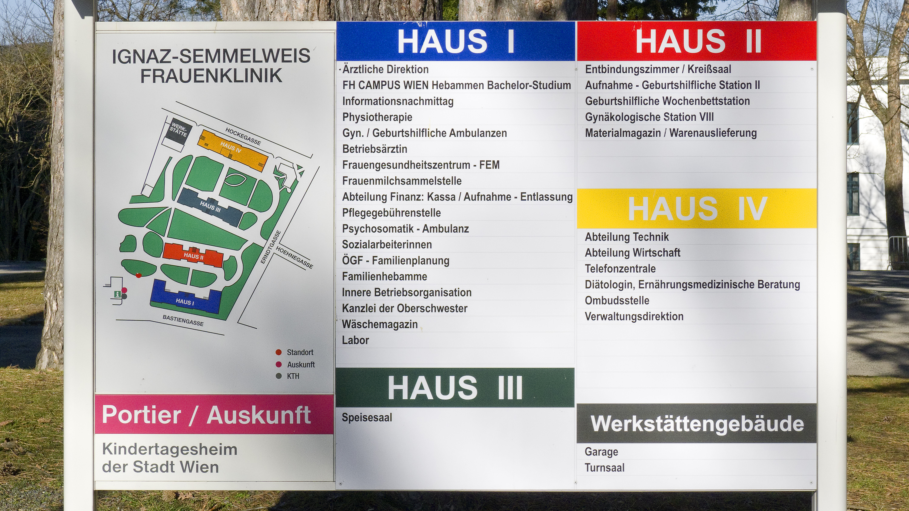 Hospital Semmelweis-Frauenklinik in Vienna Währing